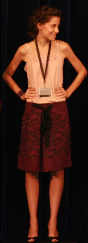 Ines Efron na festiwalu Cannes, 2007